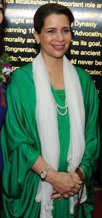 Chairperson of Dubai Healthcare City Authority HRH Princess Haya Bint Al Hussein, wife of HH Sheikh Mohammed Bin Rashid Al Maktoum, Vice-President and Prime Minister of the UAE and Ruler of Dubai, inaugurated the region’s first TongRenTang Clinic in the heart of the Emirate’s Dubai Healthcare City.